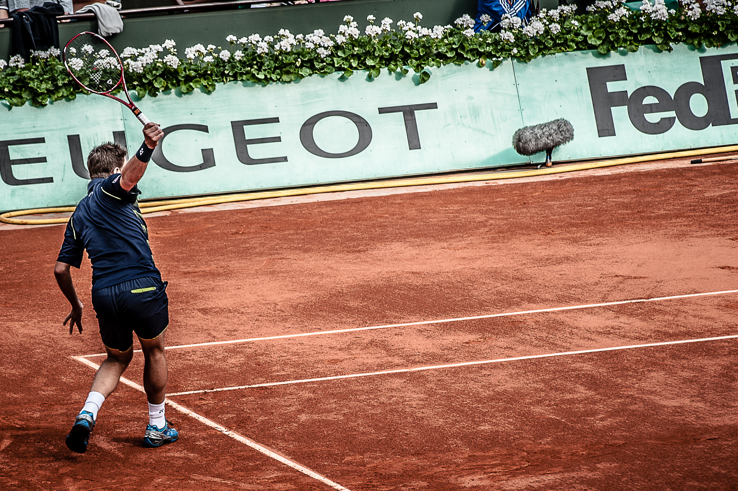 Stanislas Wawrinka